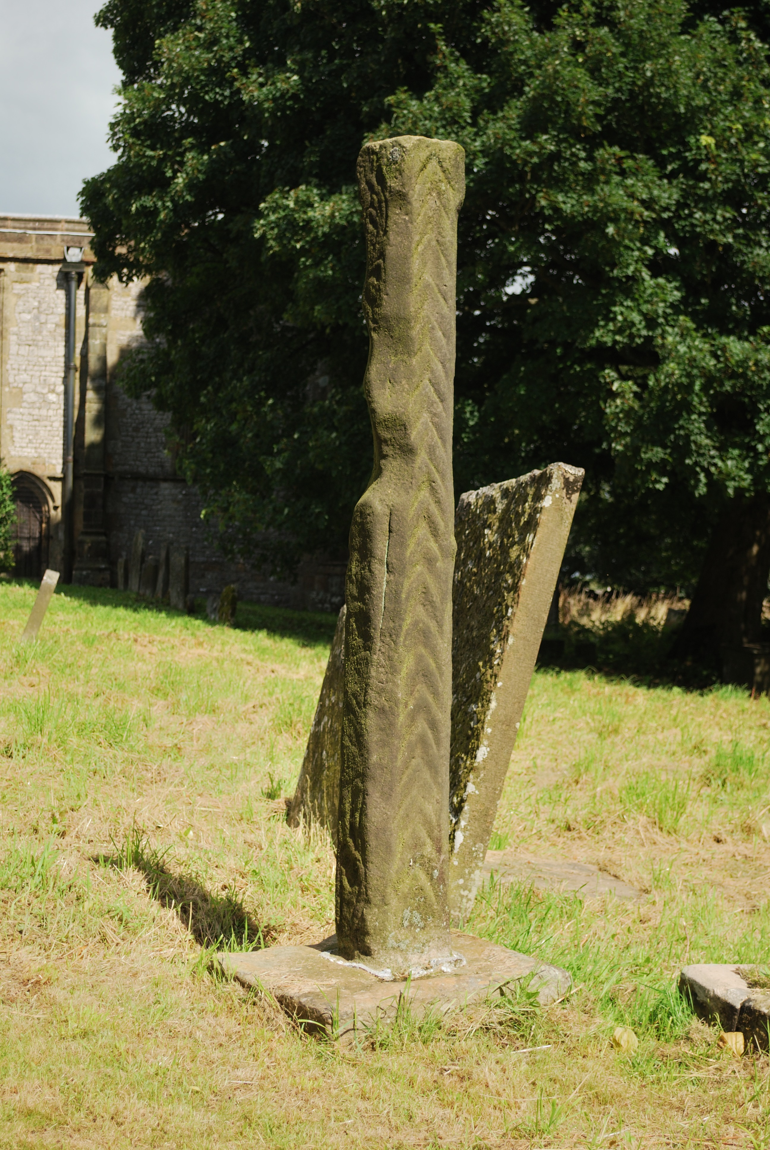 Churchyard cross at St Michael & All Angels church, Taddington, Derbyshire, England